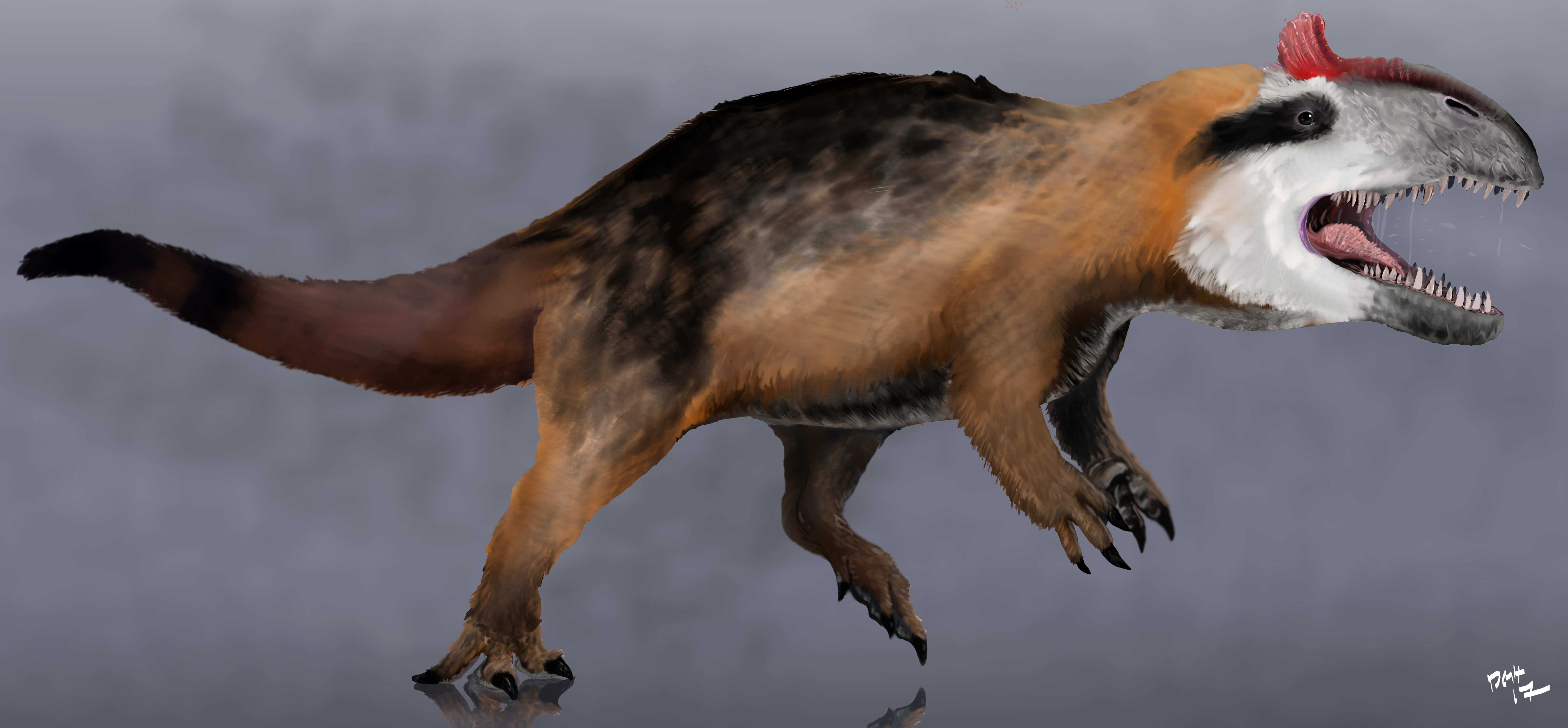 Reconstruction by Daniel Goitom